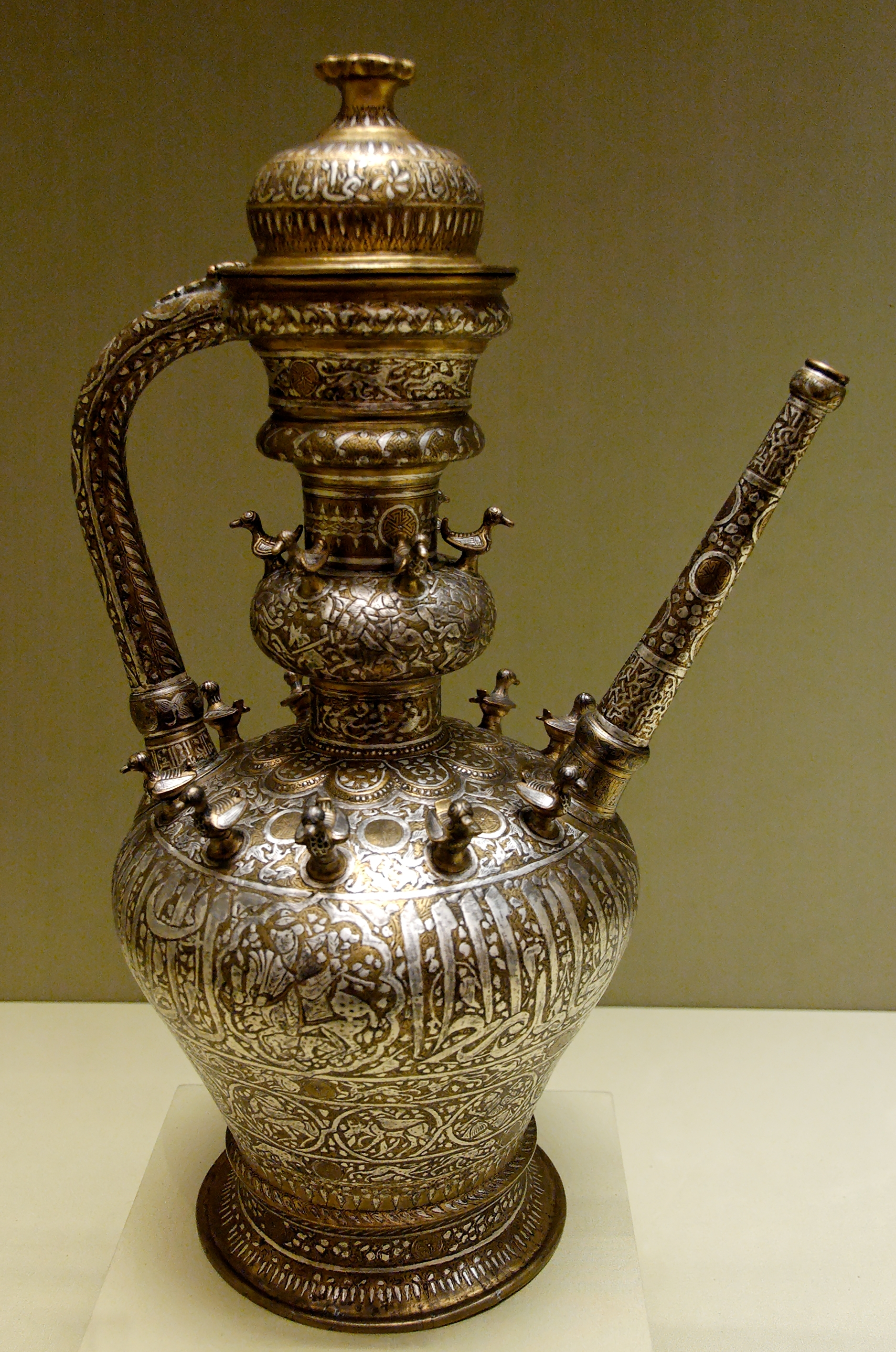 Ewer with ducks and Zodiac signs. Hammered copper alloy with hammered and repoussé decoration, inlaid with engraved silver and black paste, Egypt or Syria, 1309.